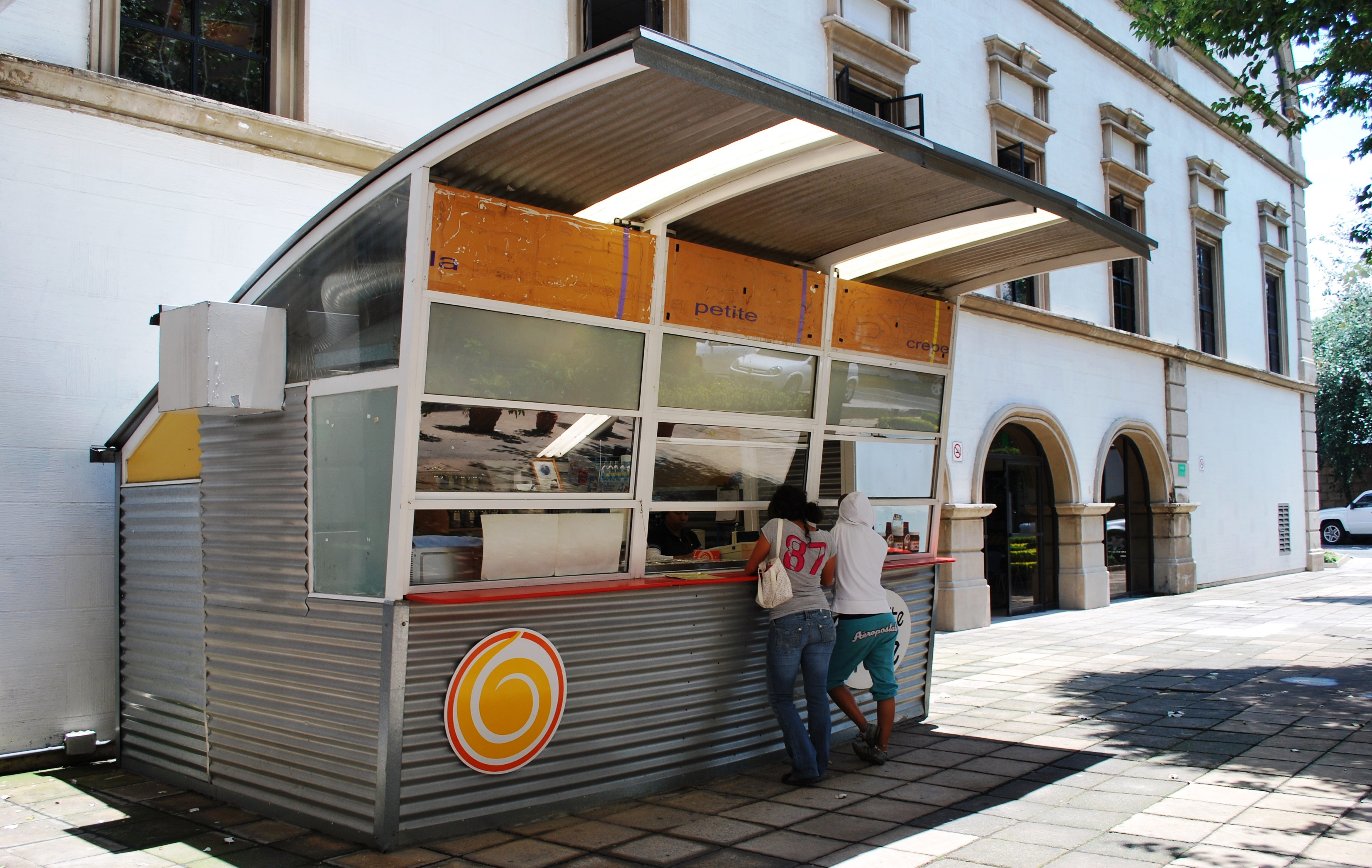 Stand selling sweet and savory crepes at ITESM Campus Ciudad de Mexico in Mexico City